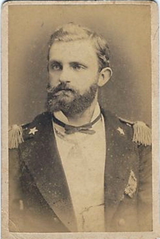 Luigi Montabone (18..-1877) - Tommaso of Savoy-Genova (Turin, February 6, 1854 - Turin, April 15, 1931).